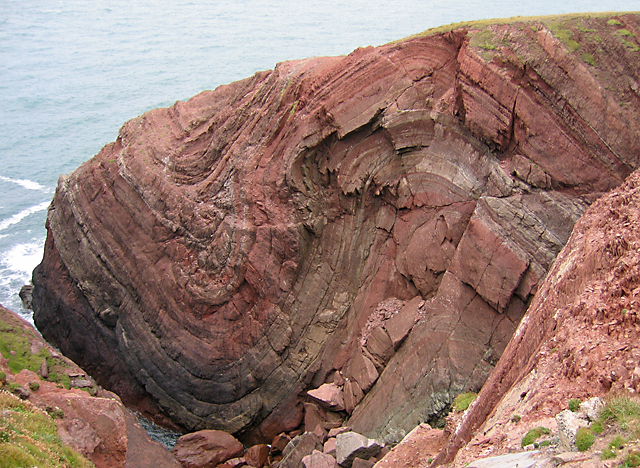 Folded Old Red Sandstone rock formation — at St Annes Head in Pembrokeshire, Wales. The sedimentary Old Red Sandstone, laid down in the Devonian period, is intensely folded by collision of tectonic plates during the Carboniferous period, known as the Variscan Orogeny.